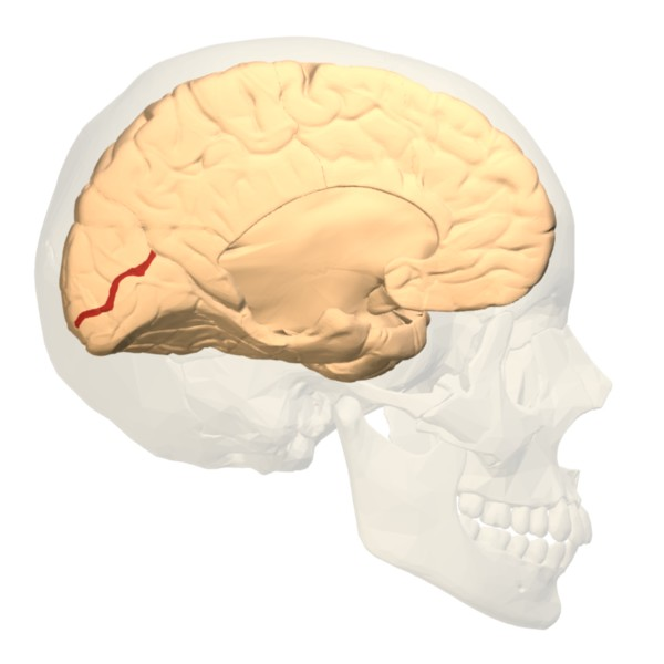 Calcarine sulcus of left cerebral hemisphere. One of sulcus located in medial wall. Polygon data are from BodyParts3D maintained by Database Center for Life Science(DBCLS).